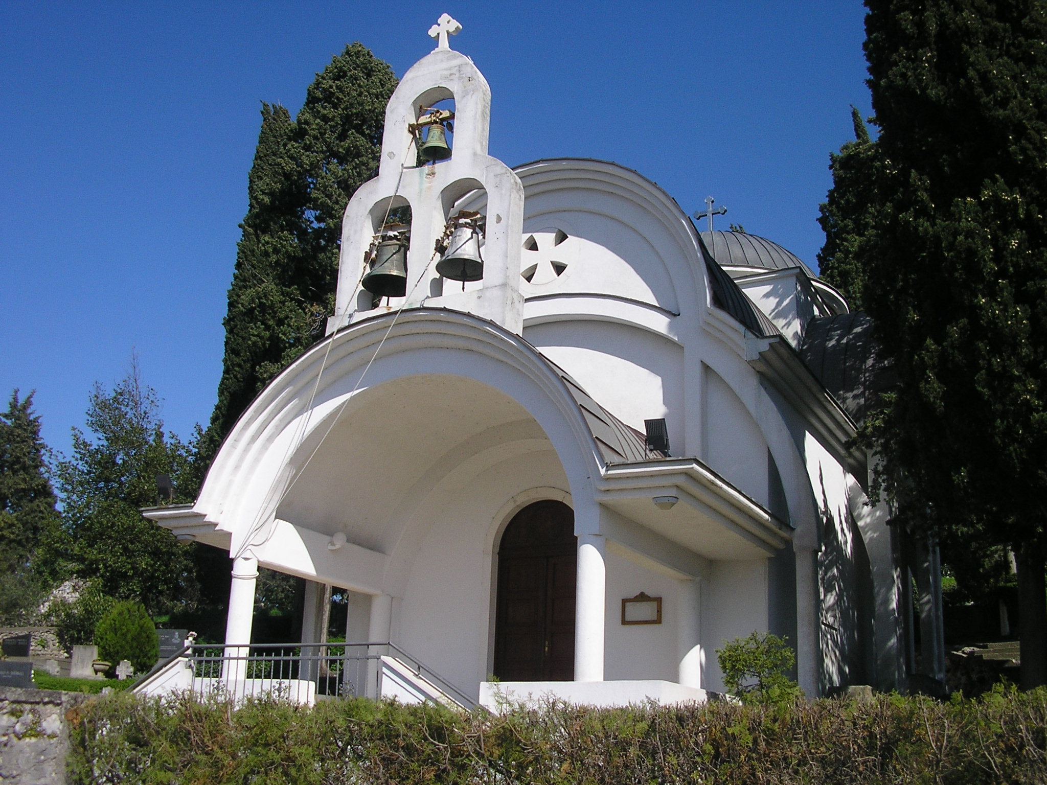 St. George orthodox church in Metković